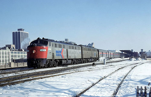 The National Limited at Dayton Union Station in February 1978